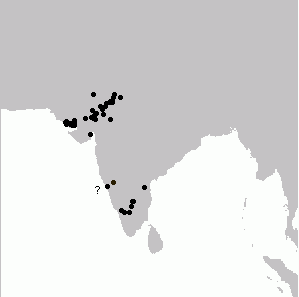 Spot distribution of Parus nuchalis